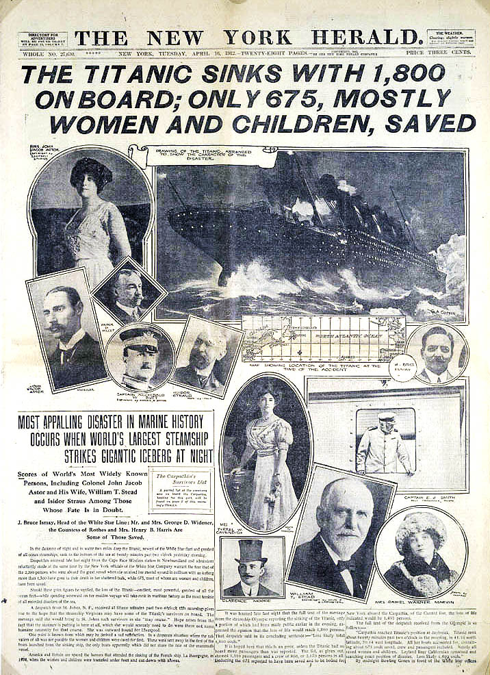 New York Herald front page about the Titanic disaster.